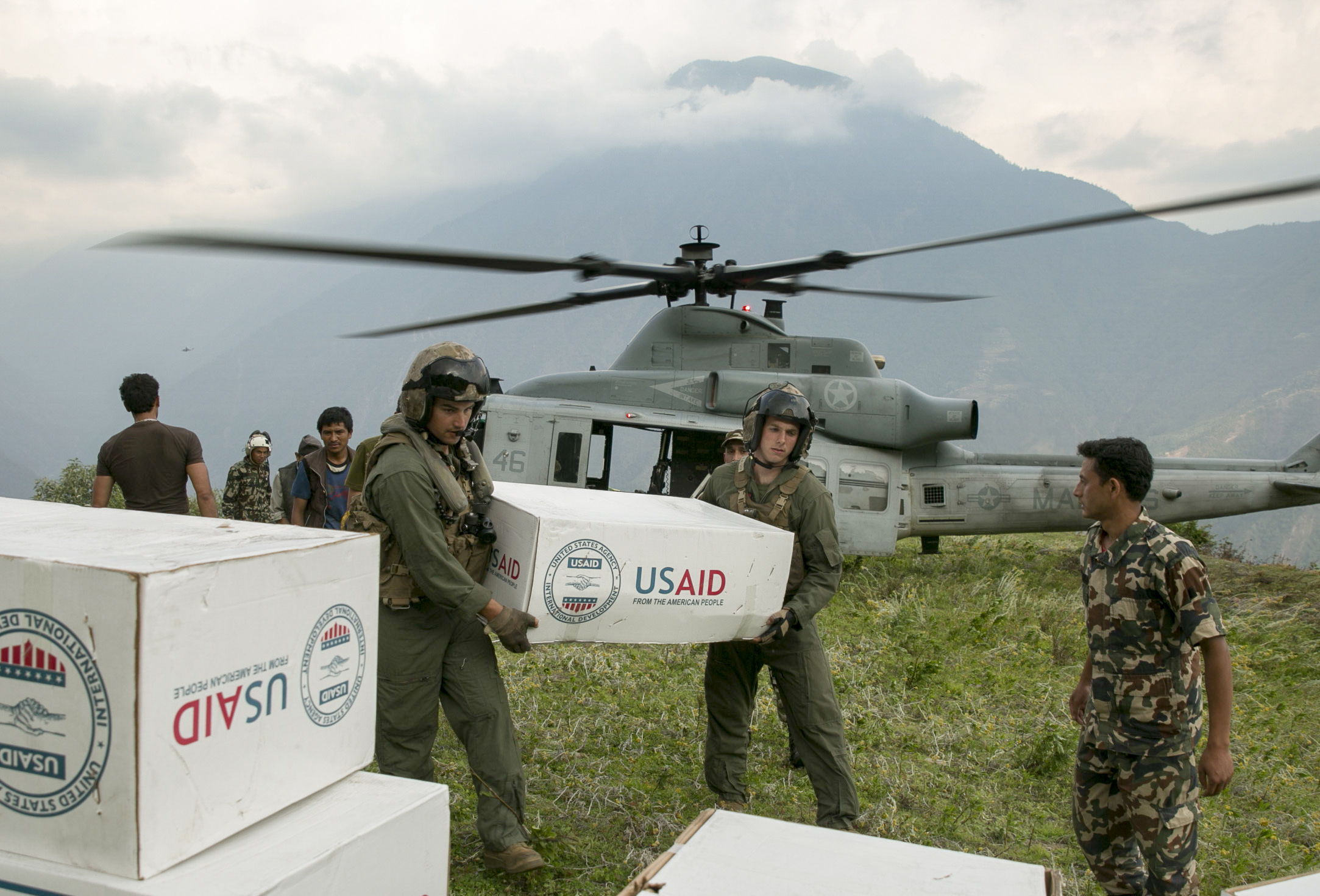 U.S. Marines and Nepalese soldiers unload tarps off of a UH-1Y Huey at Orang, Nepal, during Operation Sahayogi Haat, May 19. The Nepalese government requested assistance from U.S. Agency for International Development after the 7.8 magnitude earthquake struck their country April 25. In response, the U.S. military sent service members as part of Joint Task Force 505 at the direction of USAID. JTF 505 continues to work hand in hand with the Nepalese government through USAID. (U.S. Marine Corps photo by Cpl. Isaac Ibarra/Released)